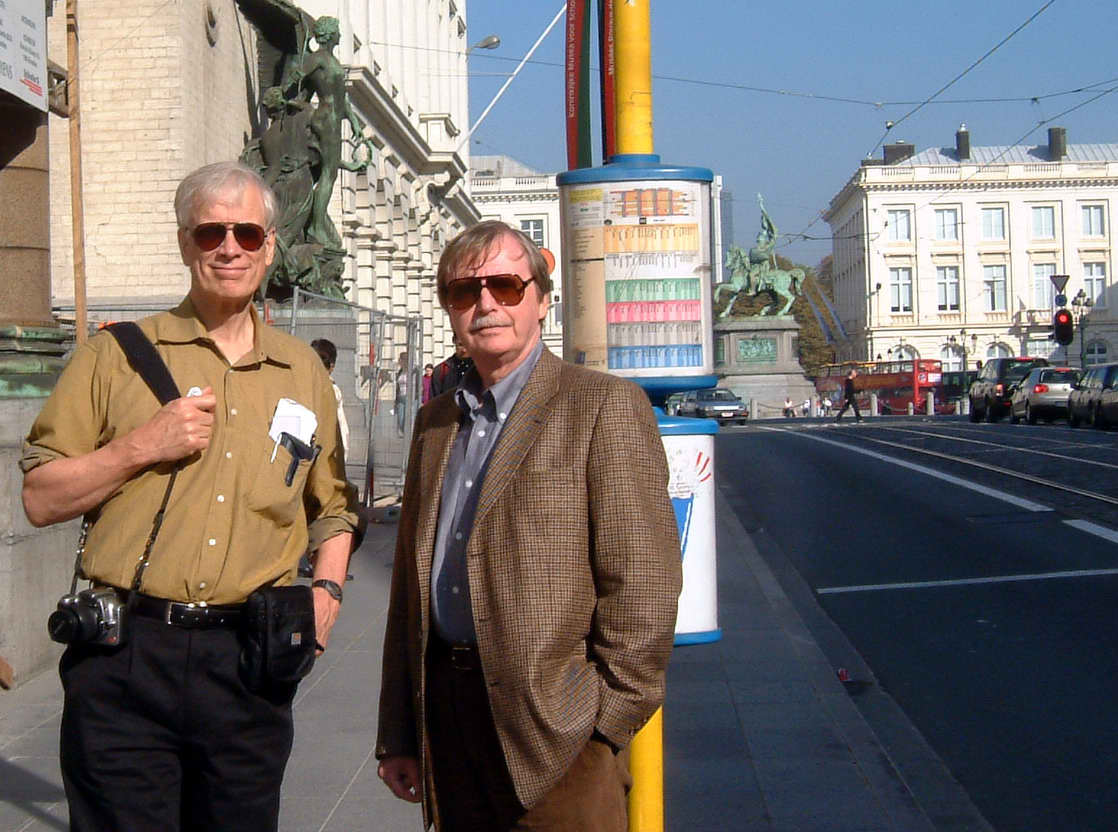 James Alcock and Barry Beyerstein in Brussels